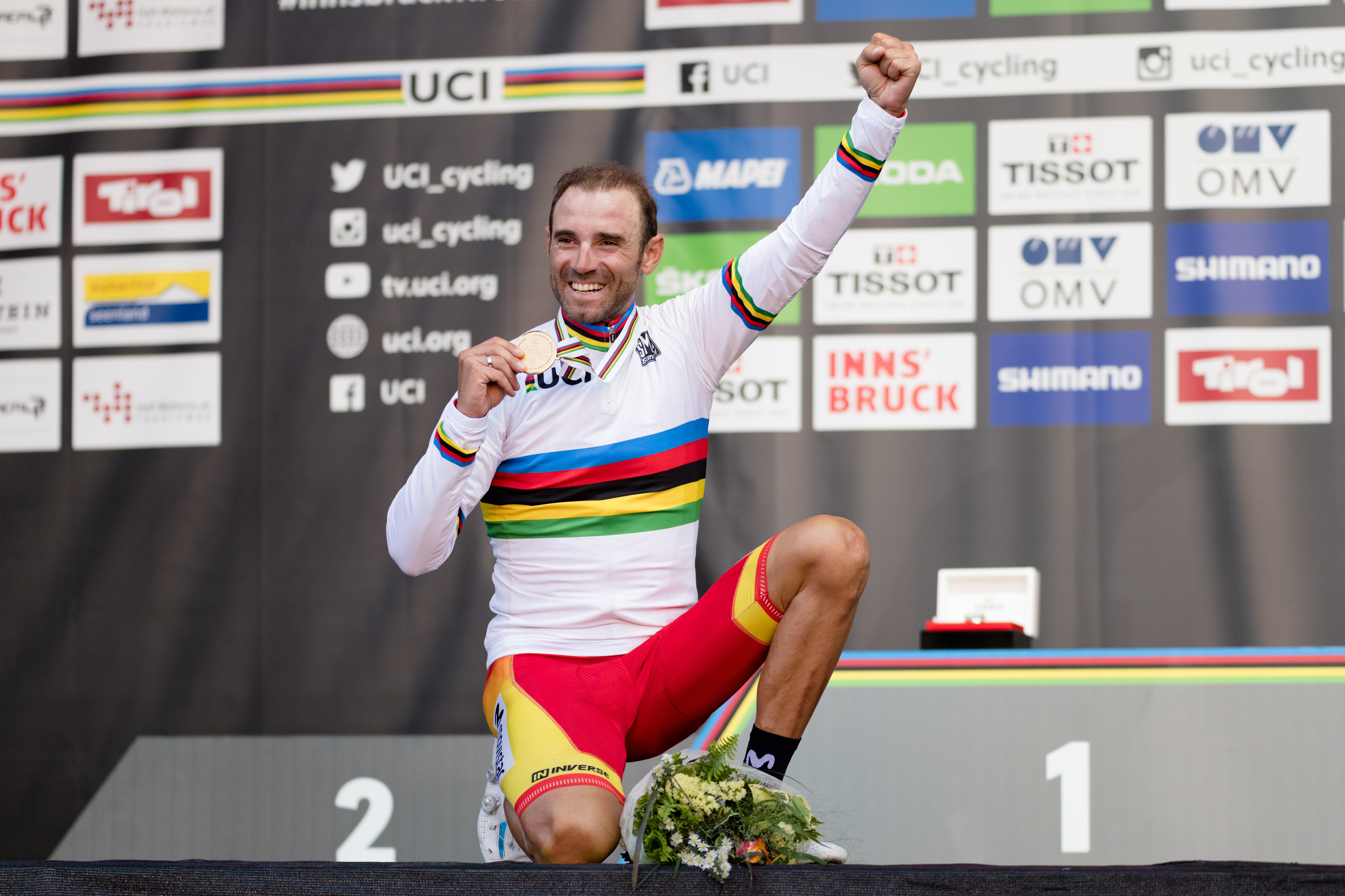 2018 UCI Road World Championships Innsbruck/Tirol Men Elite Road Race. Picture shows: Award Ceremony, winner Alejandro Valverde of Spain